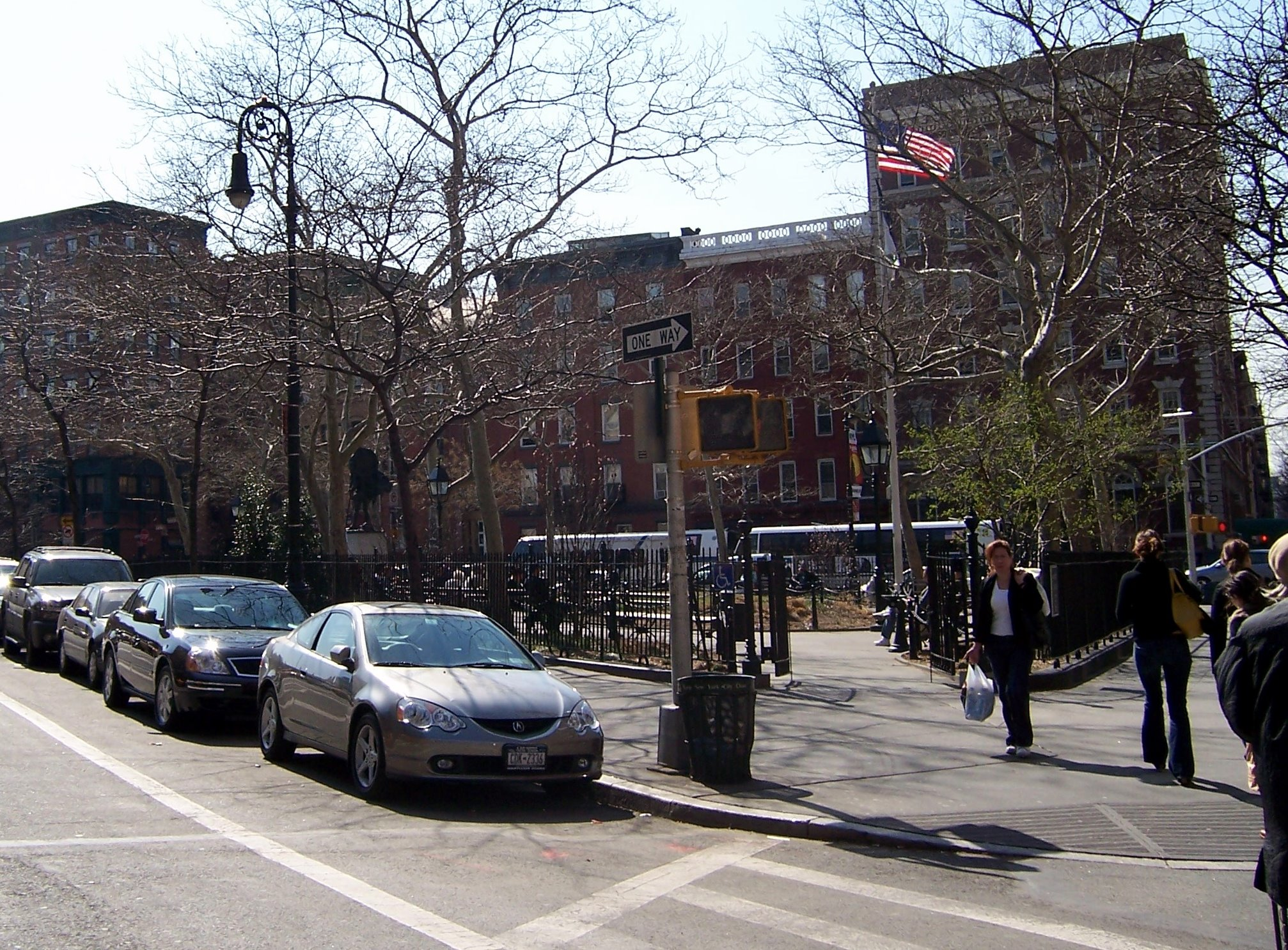 Taken by me on March 29, 2006, looking west.